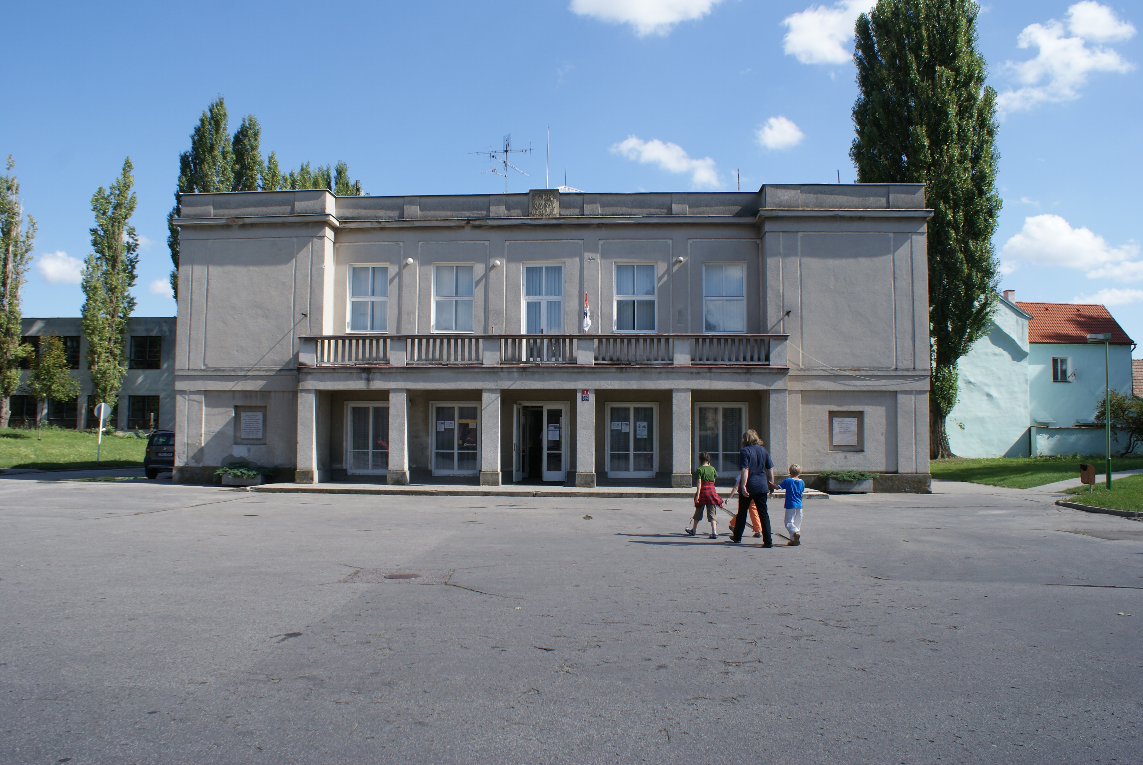 Miroslav, a town in Znojmo District, Czech Republic, a former synagogue, now a cultural center